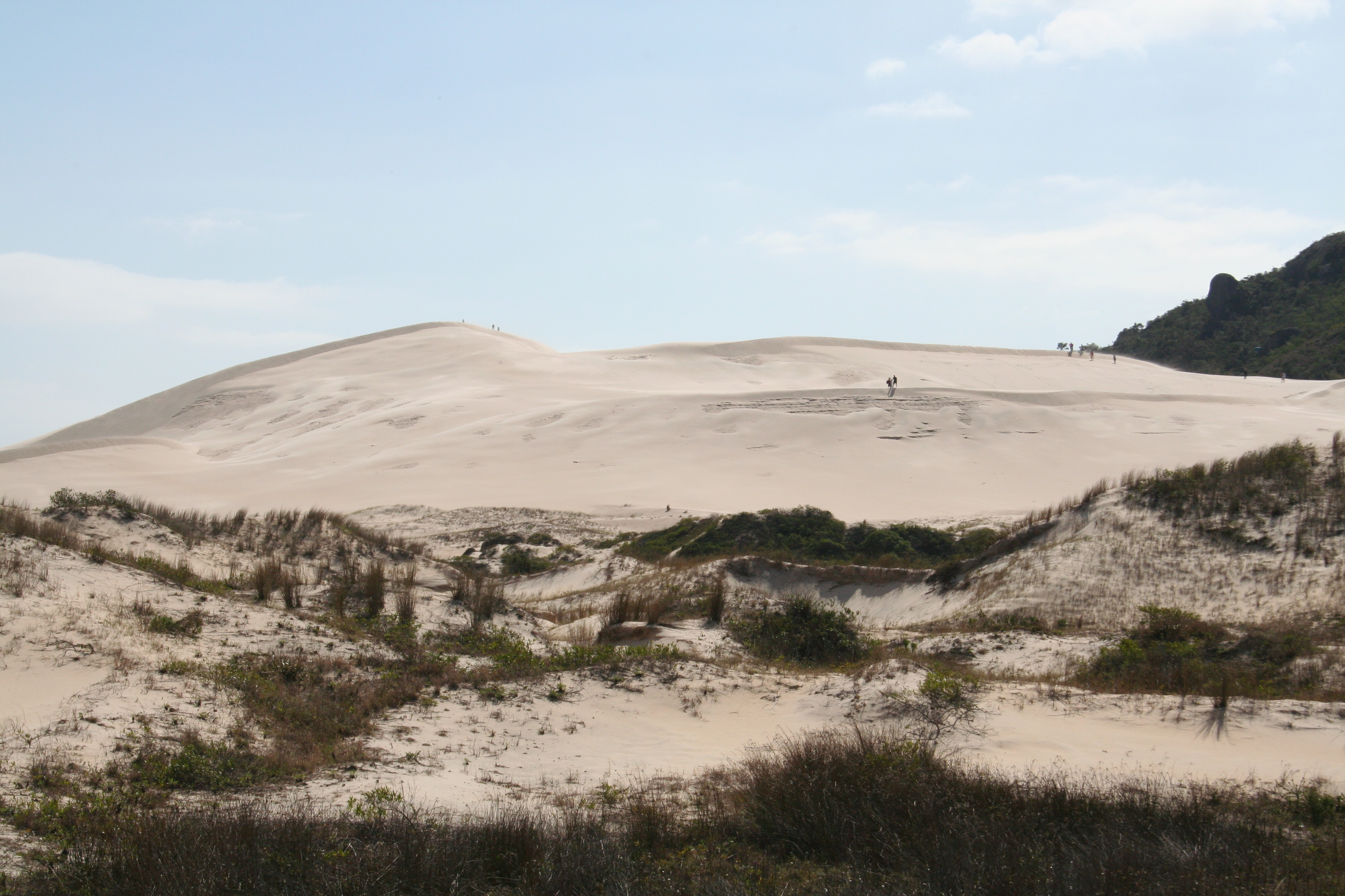 Biggest dunes of the protected area named as Parque Natural Municipal das Dunas da Lagoa da Conceição, in Florianópolis, southern Brazil.